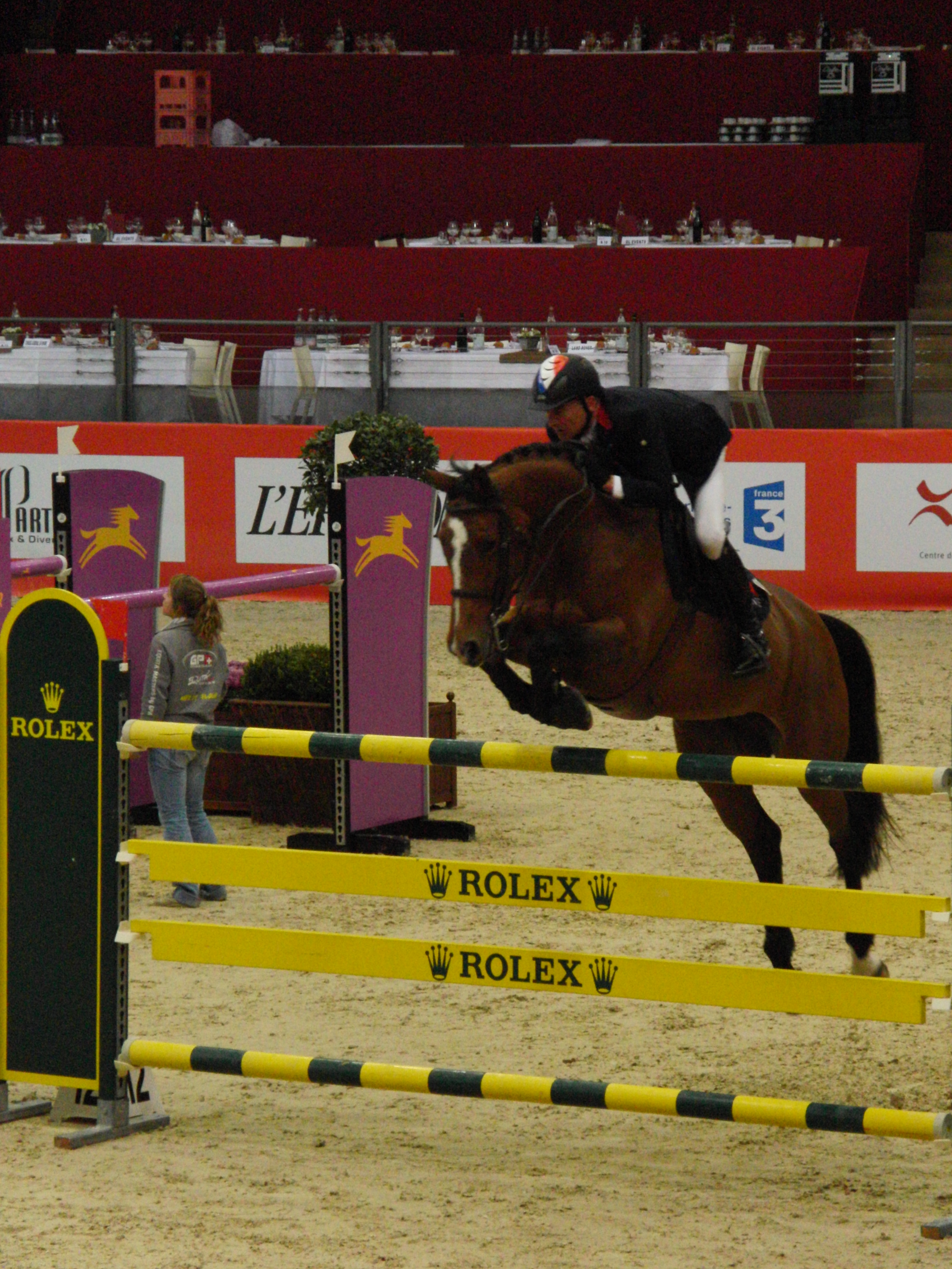 Michel Robert and Kellemoi de Pepita - CSIW5* Prix Equidia - Equita'Lyon, France